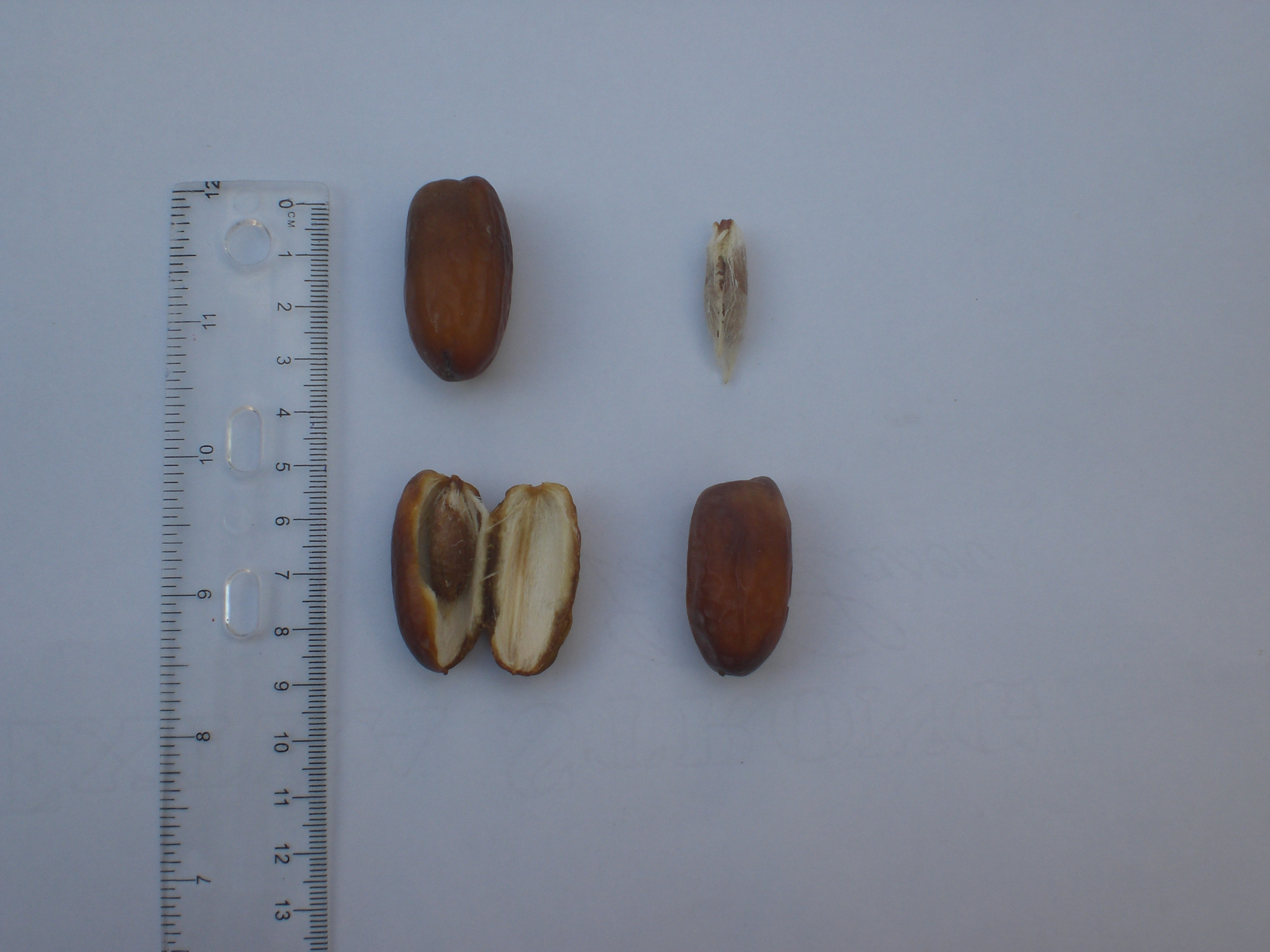 Some Tunisian dates called Kenta